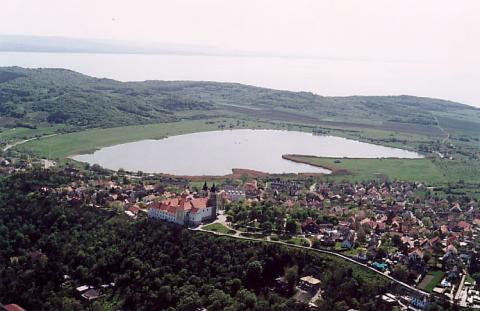 Tihany, Hungary, aerialphotography